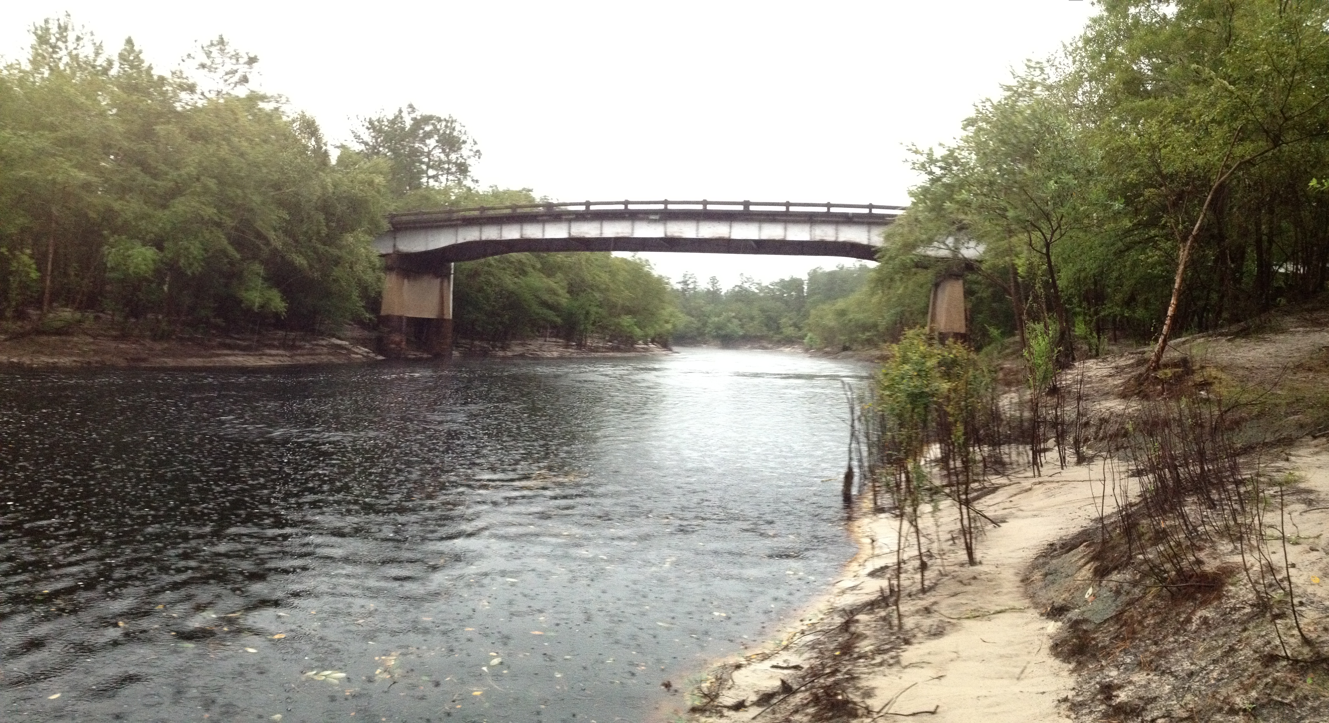 Suwannee River just upstream of CR-6 bridge.